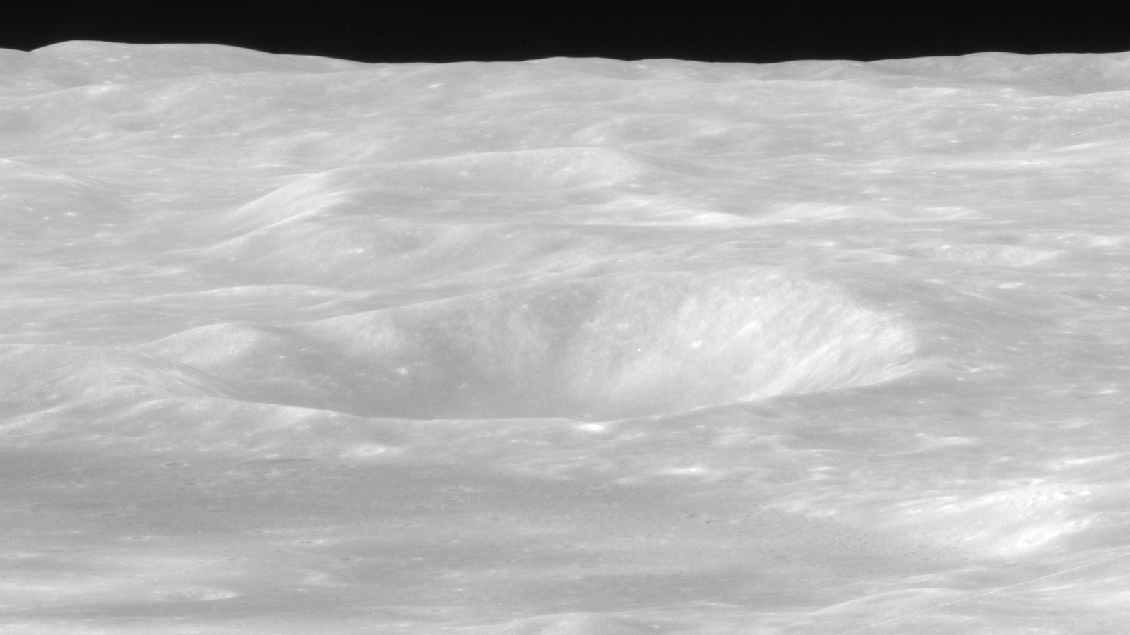 Highly oblique view of Nunn crater, facing northwest, on the moon. Taken by Apollo 17 panoramic camera.